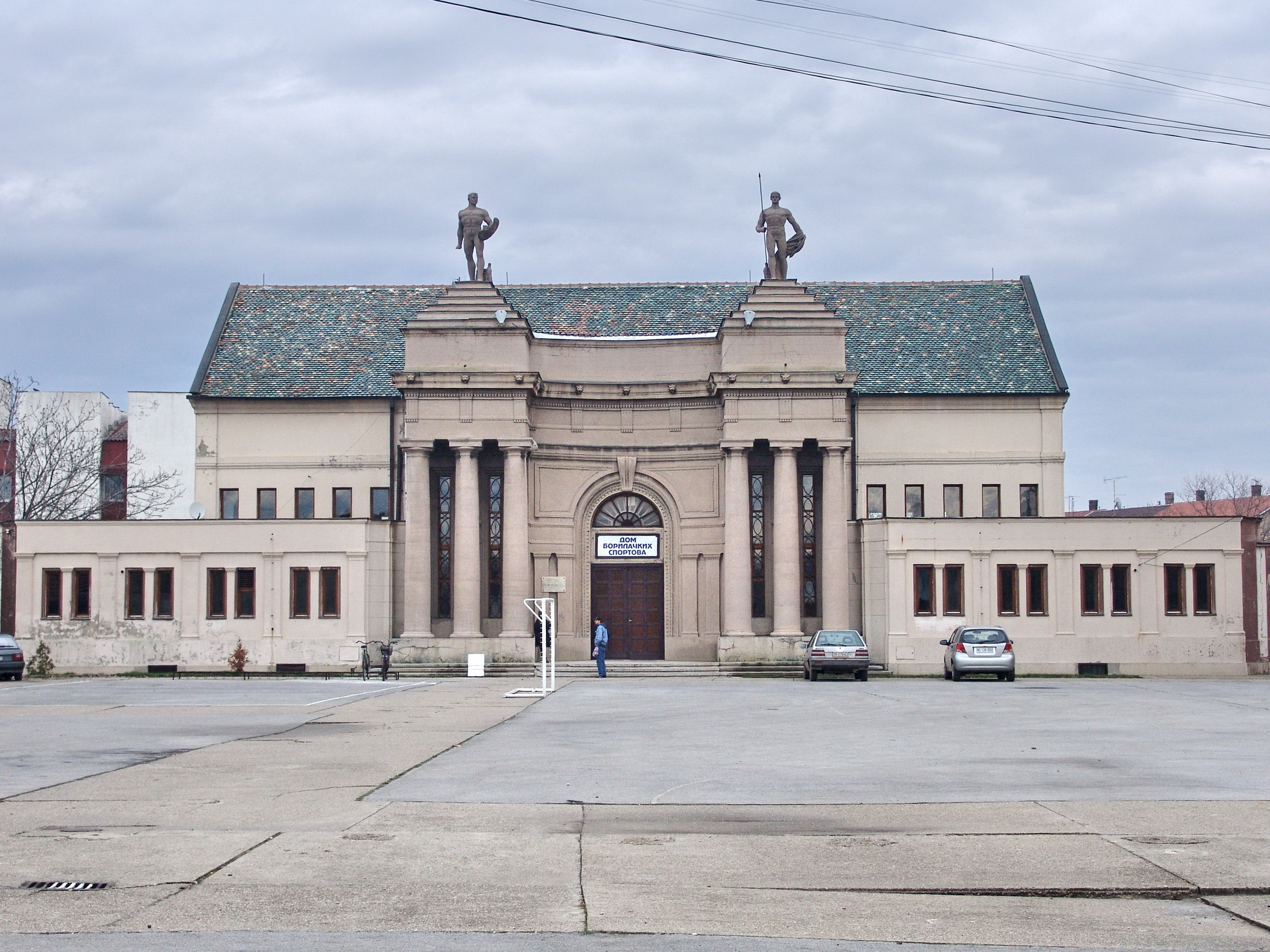 House of Soko in Zrenjanin